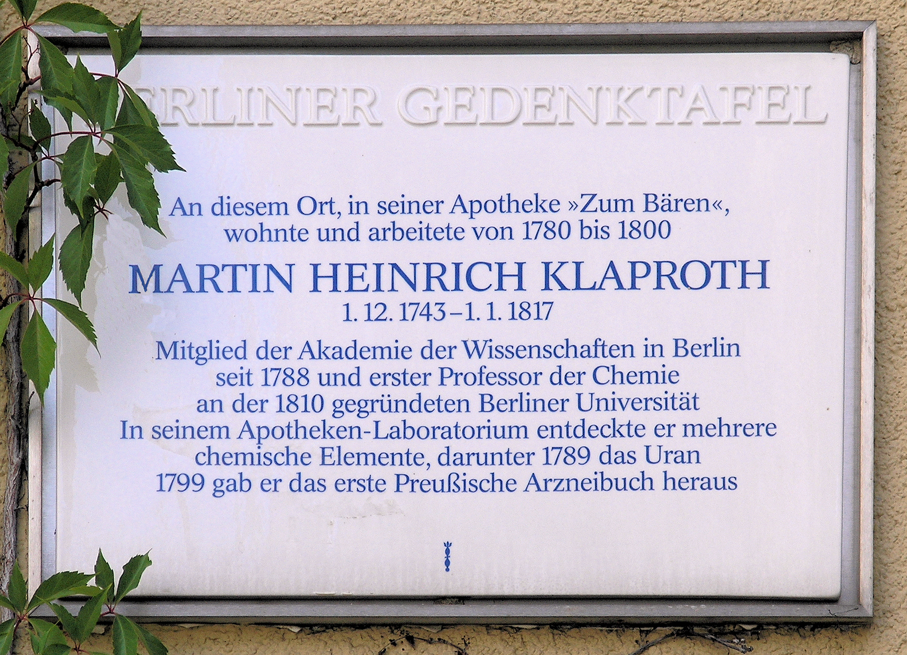 Berlin memorial plaque, Martin Heinrich Klaproth, Spandauer Straße 25, Berlin-Mitte, Germany